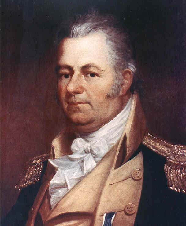 Thomas Truxtun, painted in 1817 by Bass Otis.